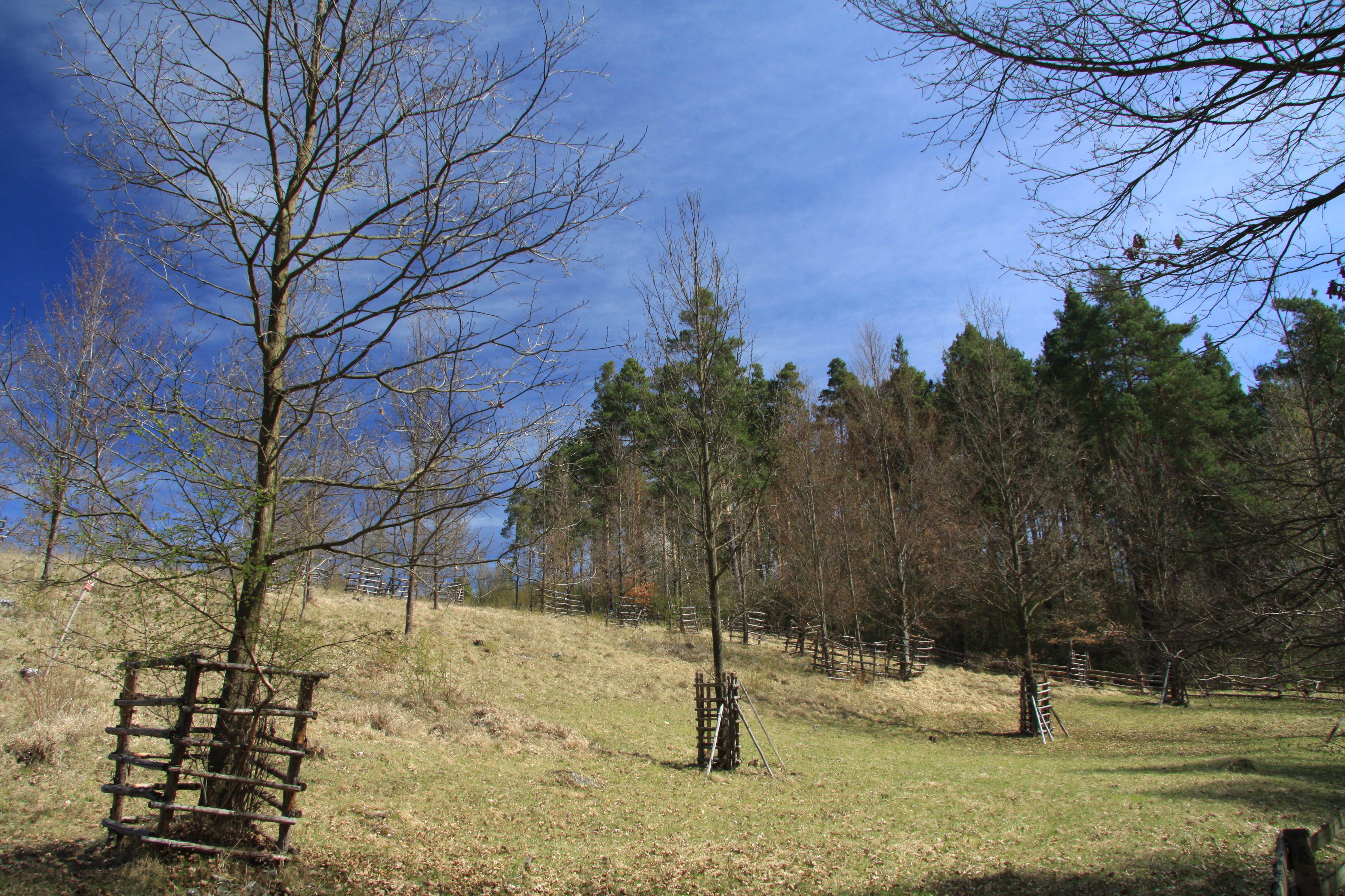 National nature reserve Vyšenské kopce in Český Krumlov District, Czech Republic Project: Chráněná území